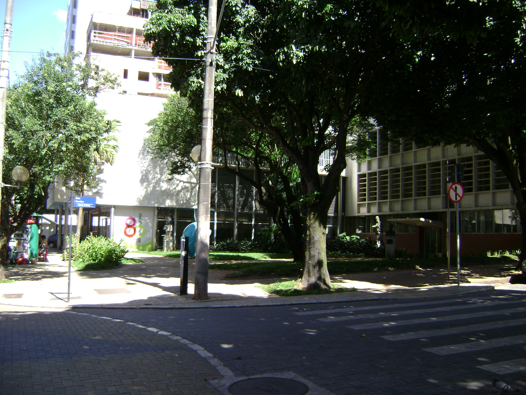 Escola de arquitetura da UFMG